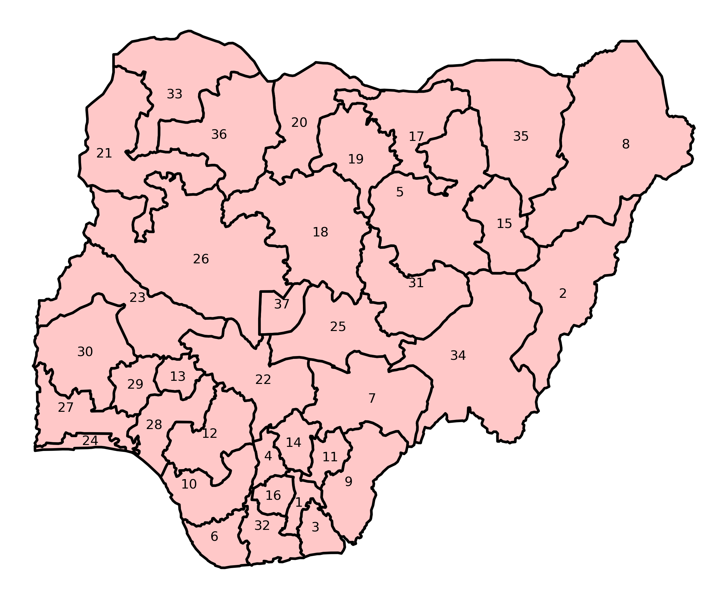 Numbered maps of the 36 States of Nigeria, in English (alphabetical) order with the Capital region as number 37. Drawn by User:Morwen.